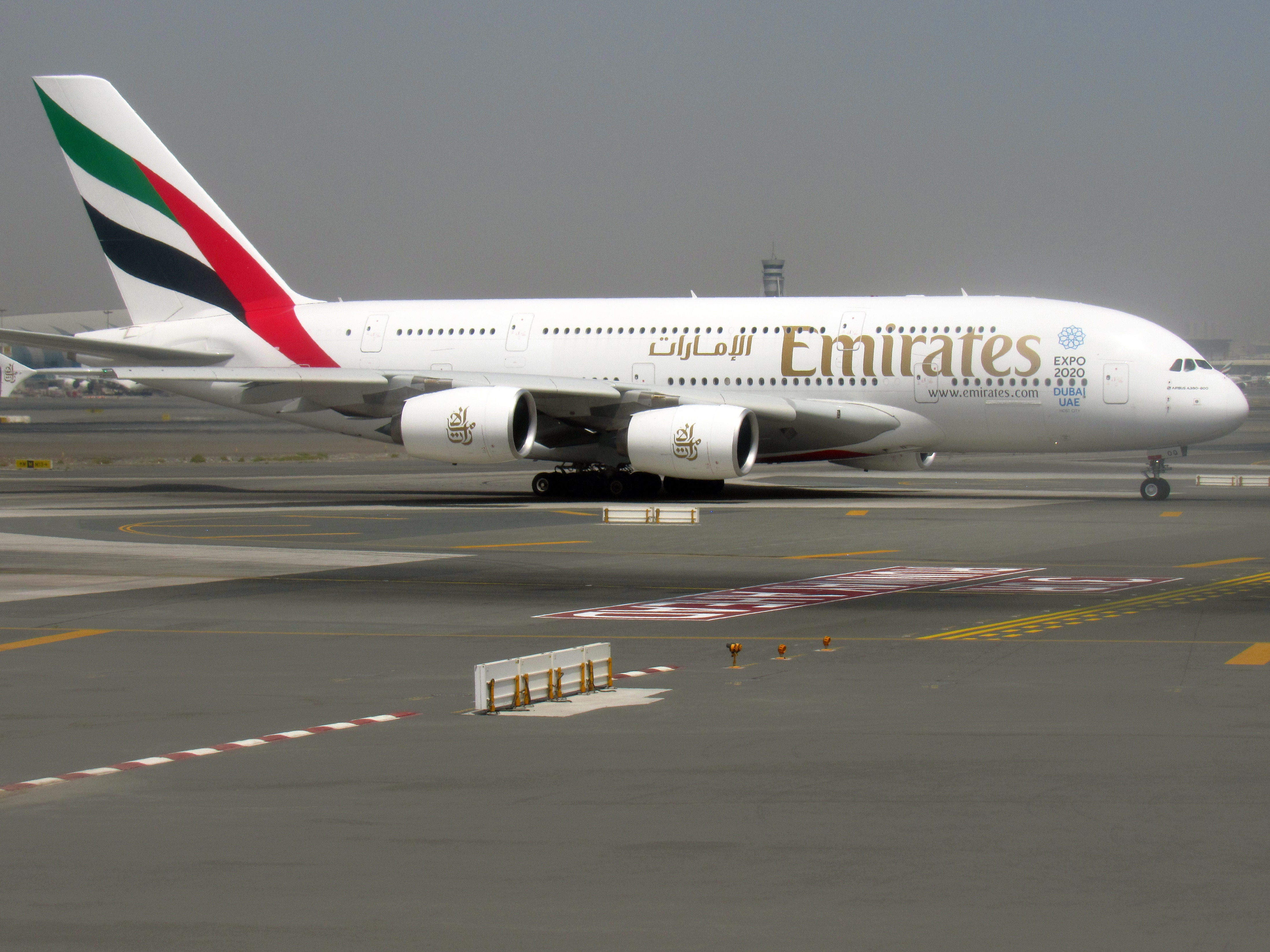 Airbus A380 of Emirates (A6-EOQ), at Dubai International Airport.